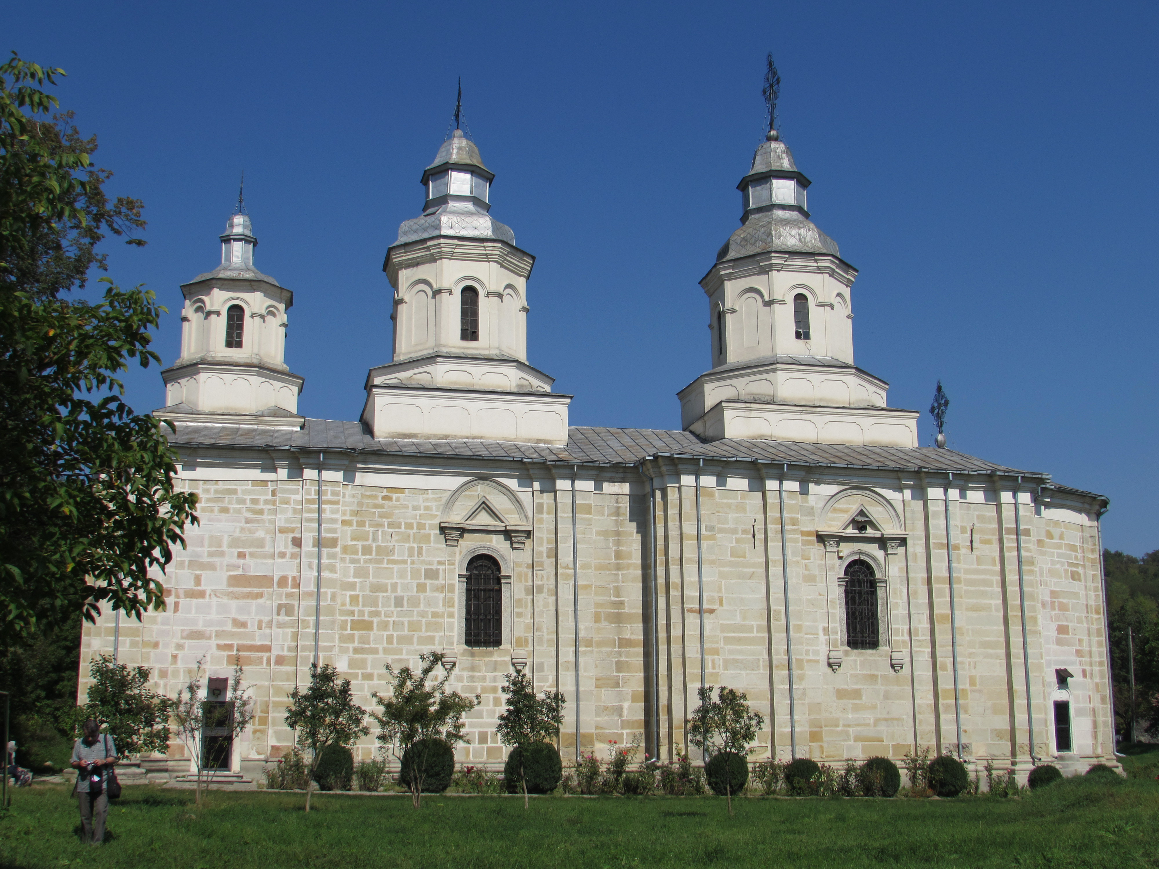 Fosta mănăstire Cașin